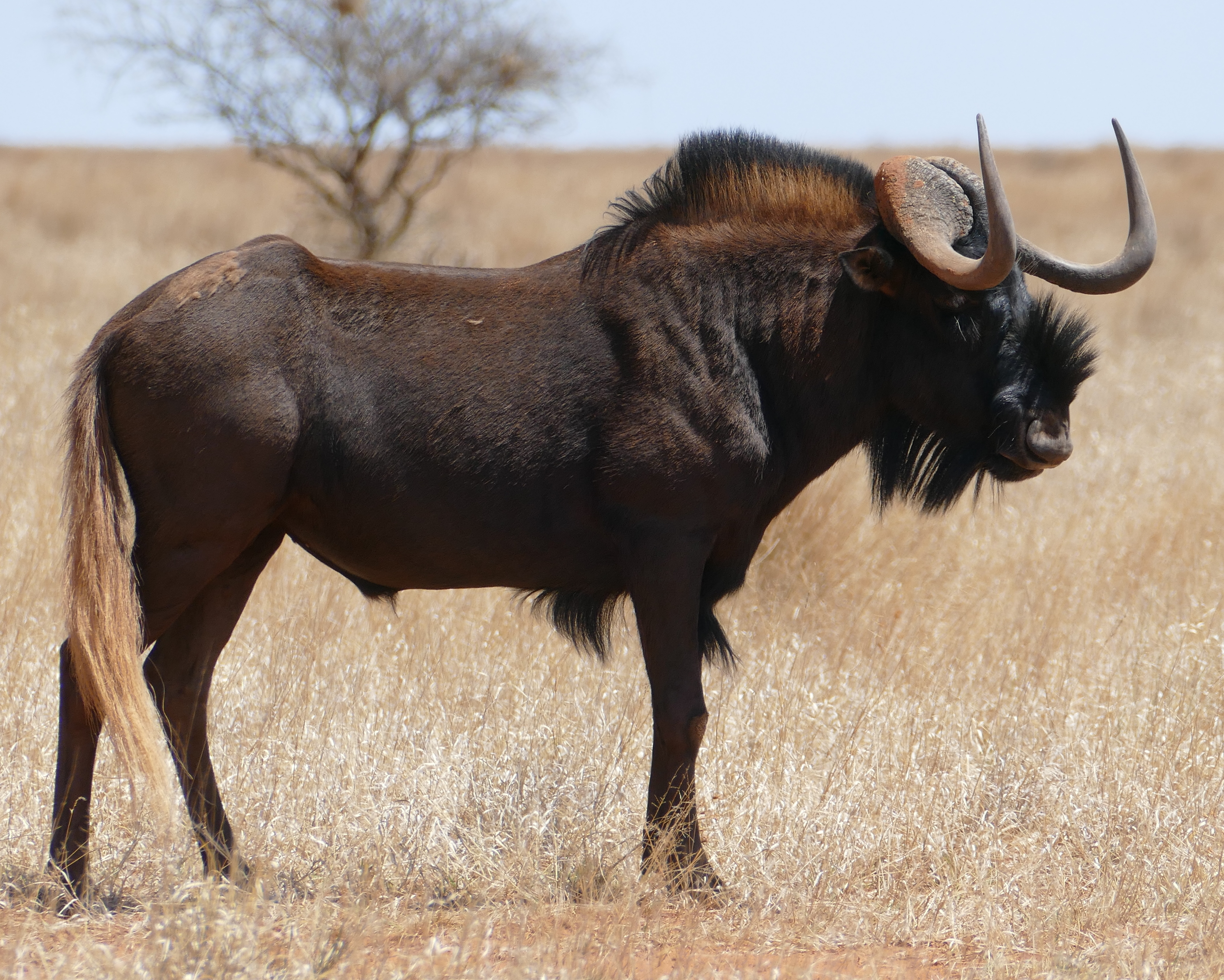 Lilydale Area, Mokala NP, Northern Cape, SOUTH AFRICA